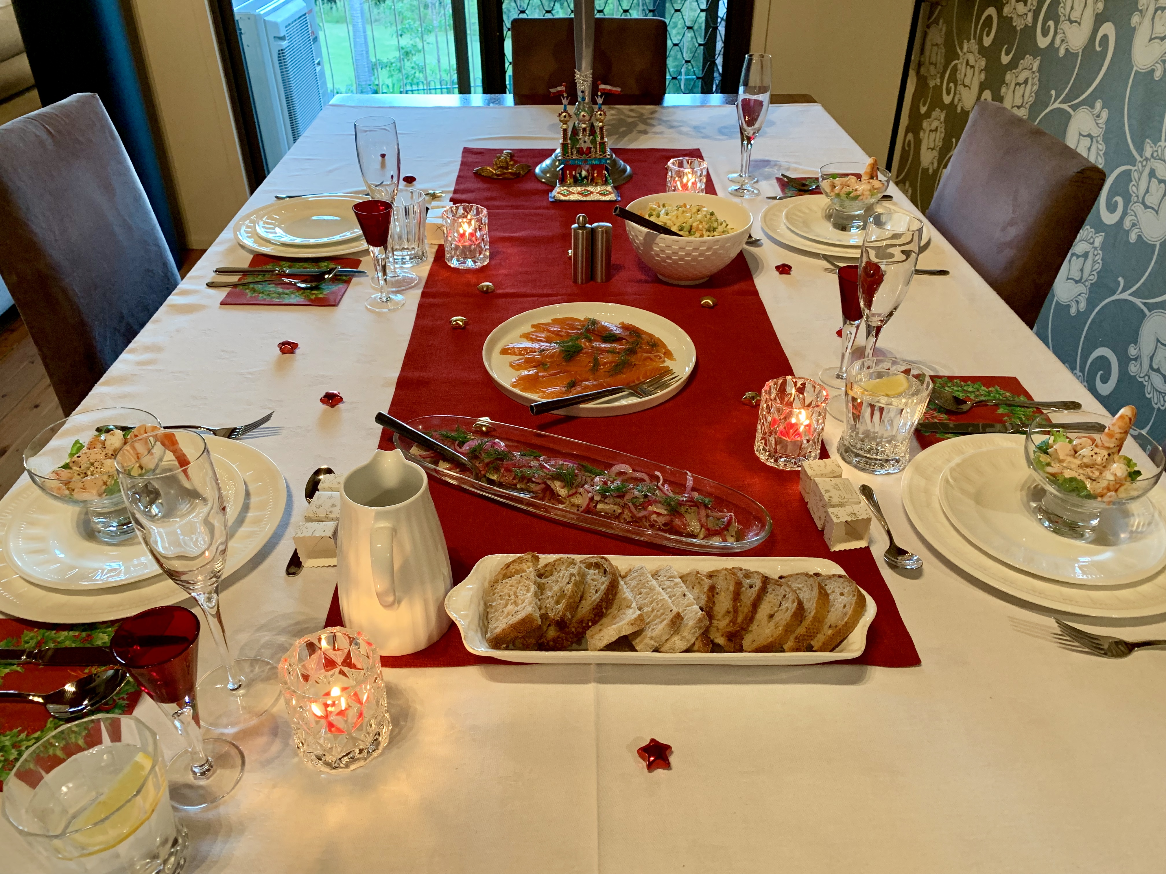 Christmas Eve dinner table with Christmas food